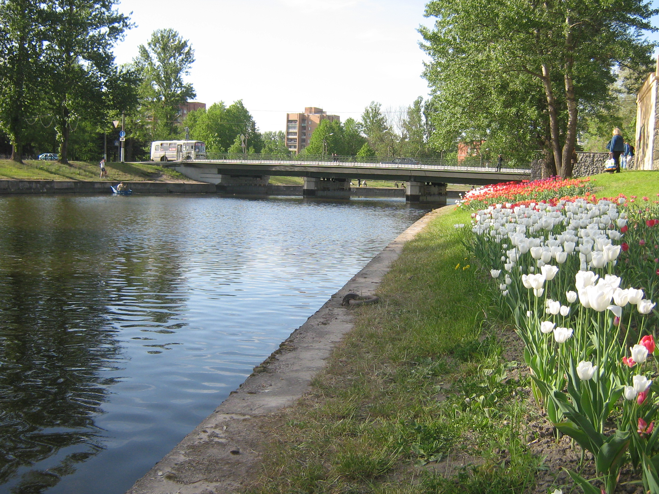 Kolpino (Russia)